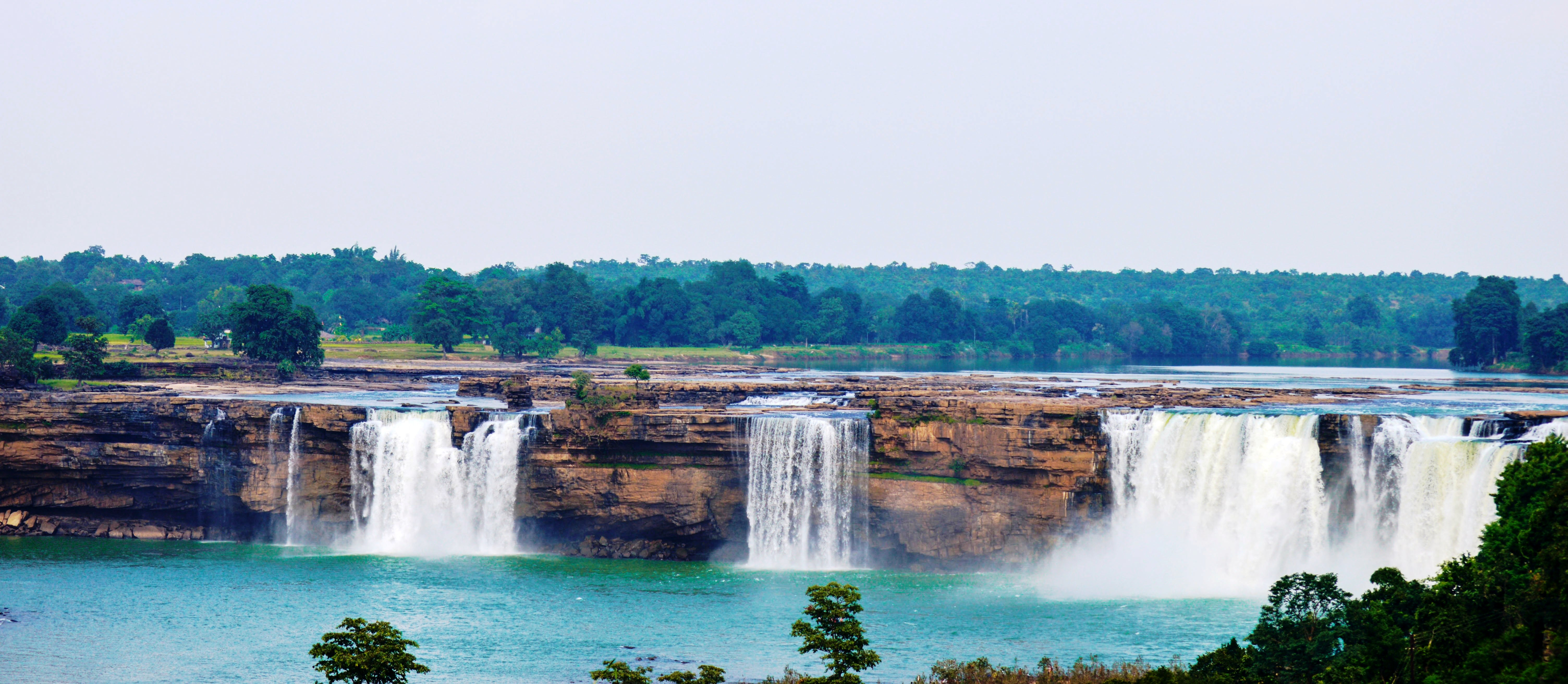 This is a landscape view of Chitrakote Falls, a natural fall located in Jagdalpur, Chhattisgarh. Being the widest fall in India, is often called as the Niagara Fall of India